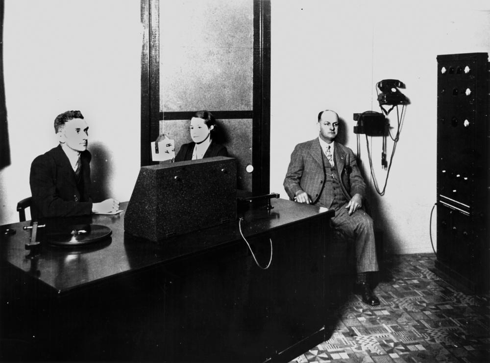 Presenter and guests at 4WK radio station, Warwick, ca.1940. Arnold Lawrence, left, and George Bickle, right.